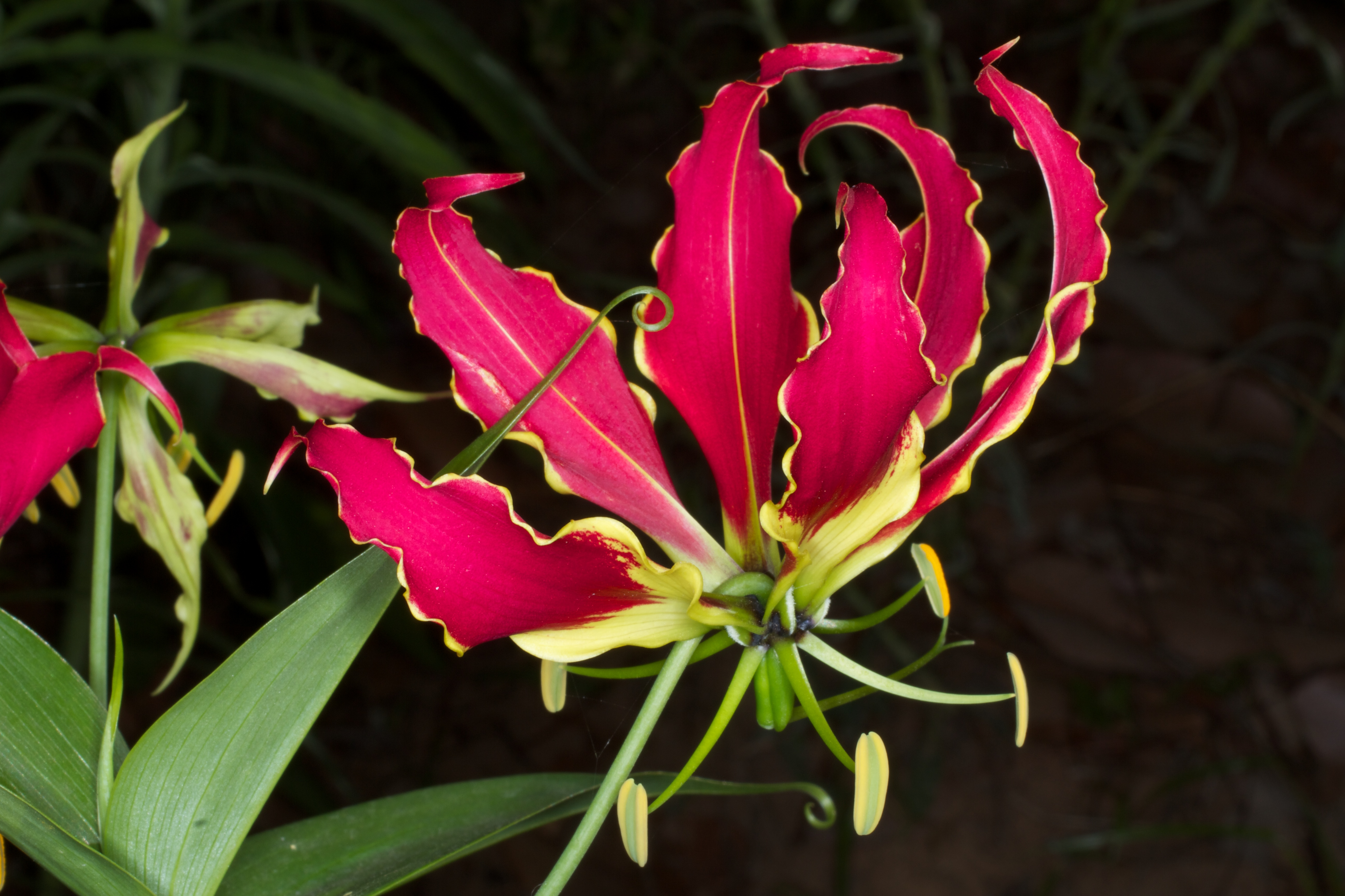 Gloriosa superba at Mabvuku, Harare, Zimbabwe